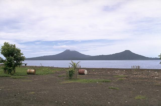 Lolobau volcano (left) sits astride the western rim of a caldera that formed about 12,000 years ago on the 8 x 13 km, oval-shaped Lolobau Island. It is seen here from the south across Expectation Strait along the NE coast of New Britain. The peak at the right lies on the eastern rim of the 6-km-wide caldera. Several vents within the caldera, occupying an E-W-trending line on the eastern flank of Mount Lolobau, have been active during historical time.